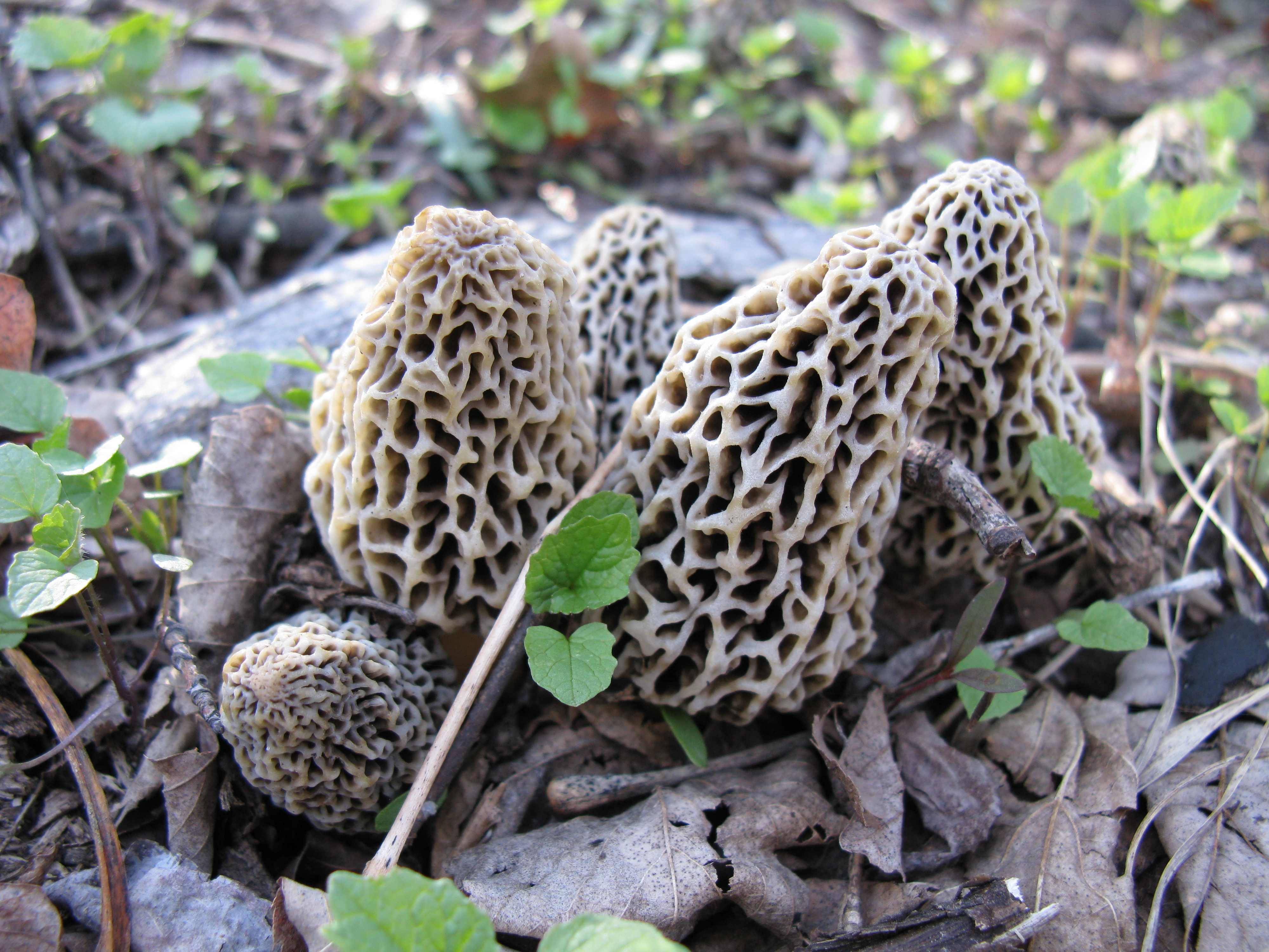 Morel in eastern West Virginia